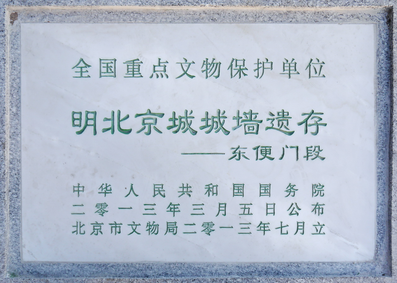 Dongbianmen section of Beijing city wall of Ming Dynasty